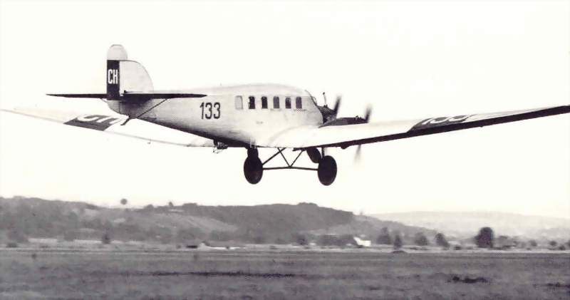 Ad Astra Aero S.A. : Junkers G.23 (CH 133) probably at Dübendorf airport (Switzerland)